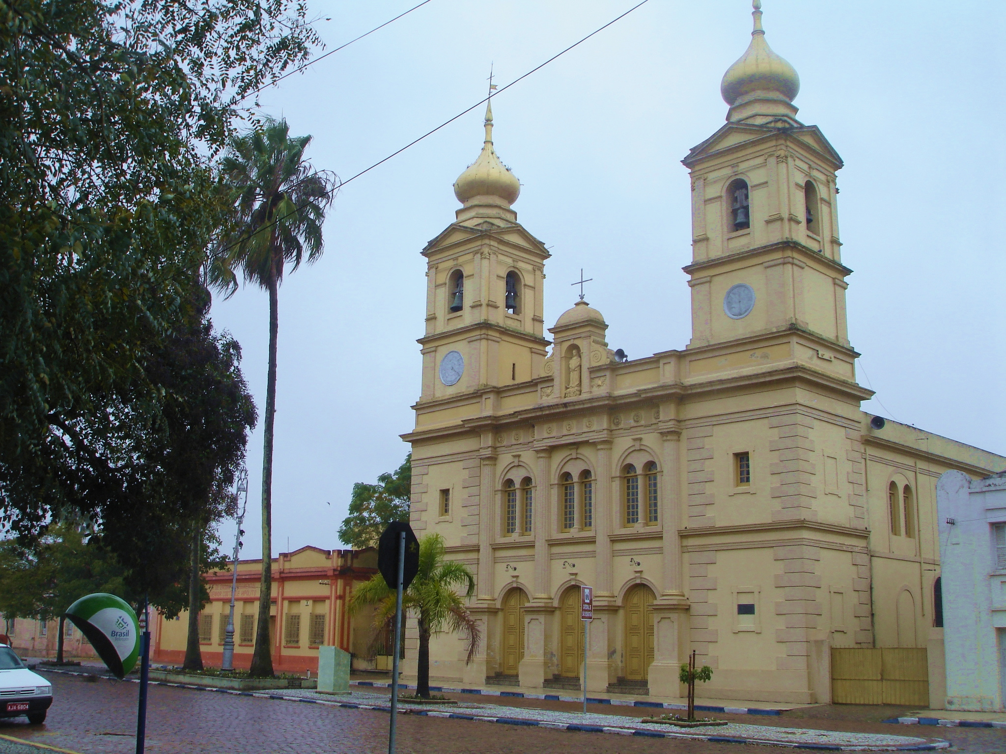 Picture os Saint Sebastian's Cathedral, City of Bagé, Brazil